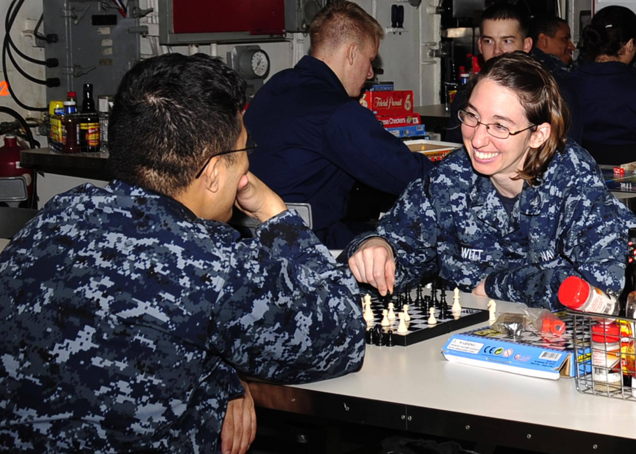 PACIFIC OCEAN (Nov. 25, 2010) Aerographer's Mate 3rd Class Ambre Witt and Airman Francis Vincent play a game of chess during family style night hosted by the aircraft carrier USS George Washington (CVN 73) morale, welfare and recreation department. George Washington on a scheduled patrol in the western Pacific Ocean. (U.S. Navy photo by Mass Communication Specialist Seaman William P. Gatlin/Released)